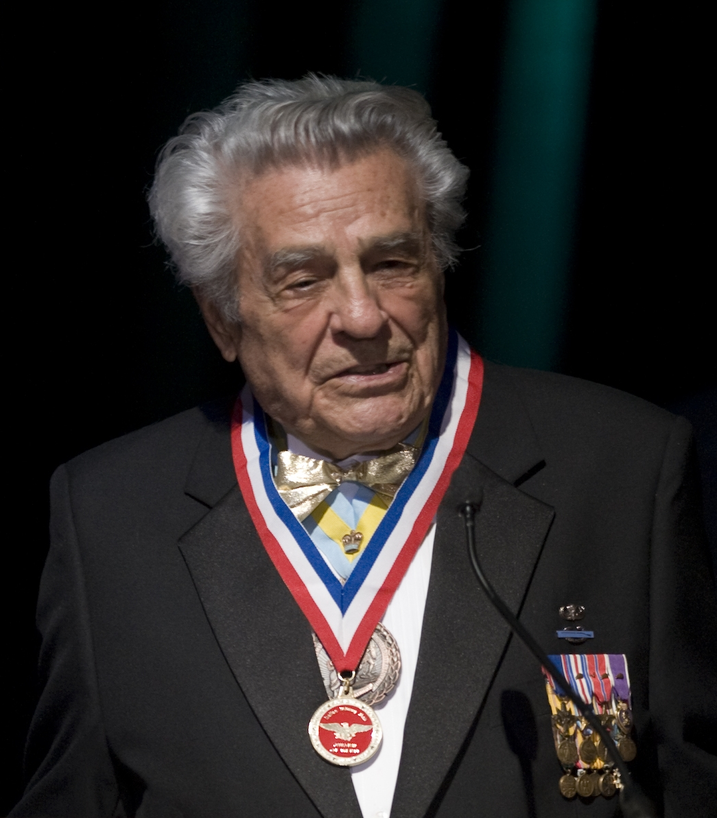 Original caption: "Medal of Honor recipient U.S. Army Lt. Col. James Megellas, the most decorated soldier from the 82nd Airborne Division during World War II, addresses the crowd at the Dallas Military Ball, in Dallas, April 18, 2009, after being presented the meritorious service award. U.S. Navy Adm. Mike Mullen, chairman of the Joint Chiefs of Staff, was the guest of honor at the 45th annual event, which honors active and retired military in the greater Dallas-Fort Worth, Texas, metropolitan area."Note that the caption is incorrect in calling Megellas a Medal of Honor recipient, he was nominated for but never received the medal.